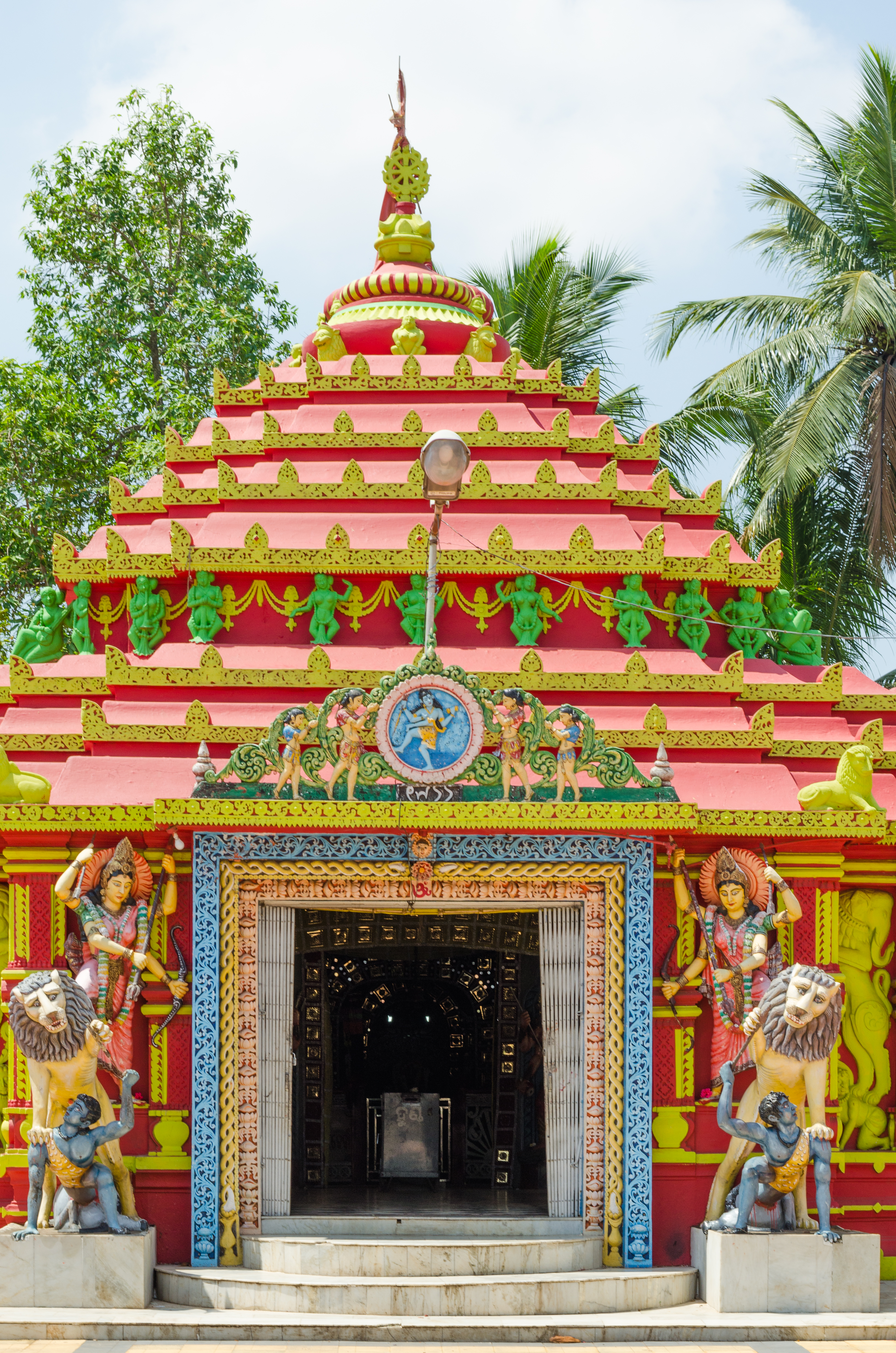 Damanei Temple, Jatani